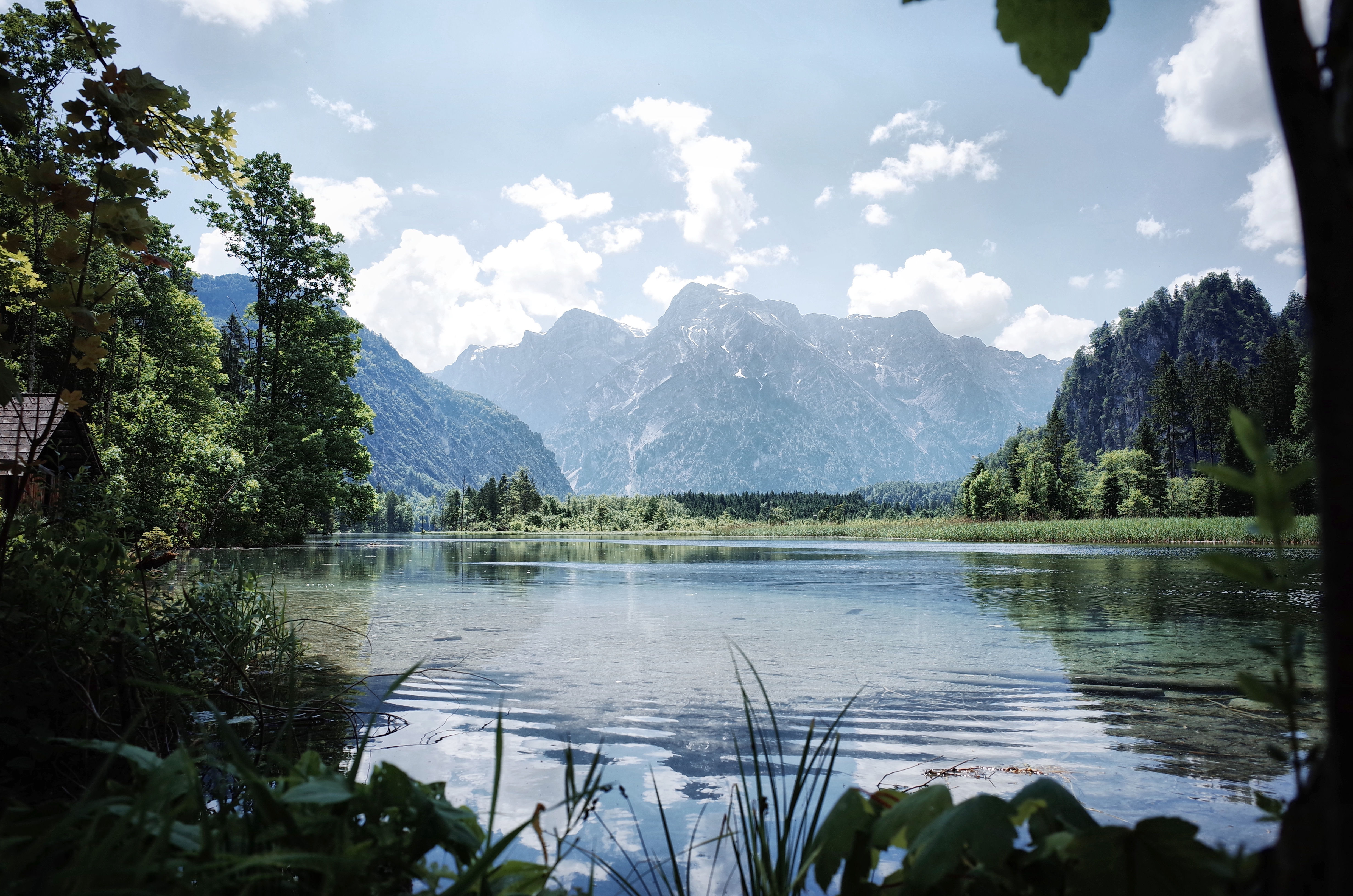 Almsee in Summer